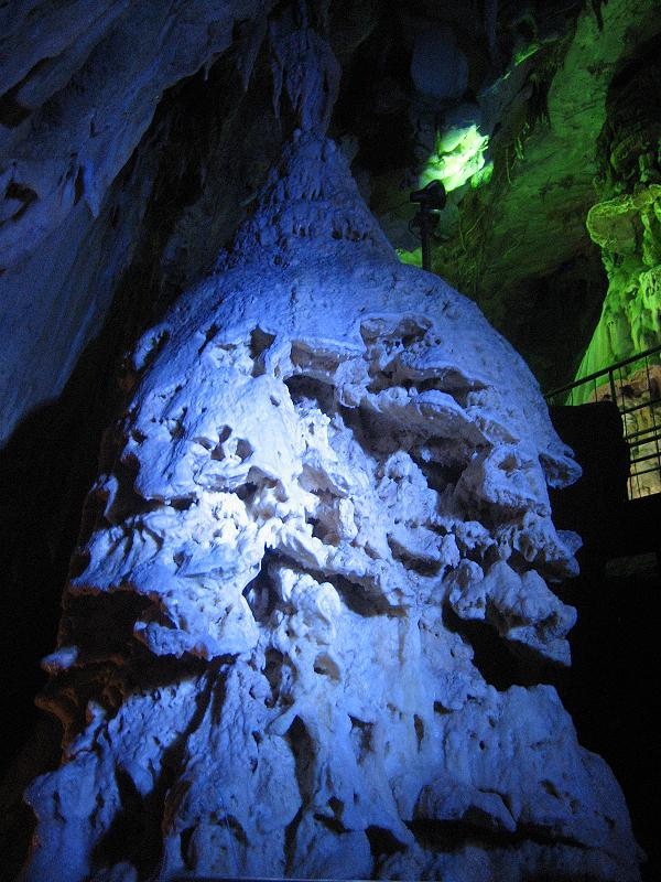 The Silver Frost - an impressive column in Abukuma-do Cave in Takine Town, Tamura City, Fukushima Prefecture, Japan. Picture was taken with a Canon Power Shot SD450 Digital Elph camera and modified using a Paint Shop program on a laptop computer.